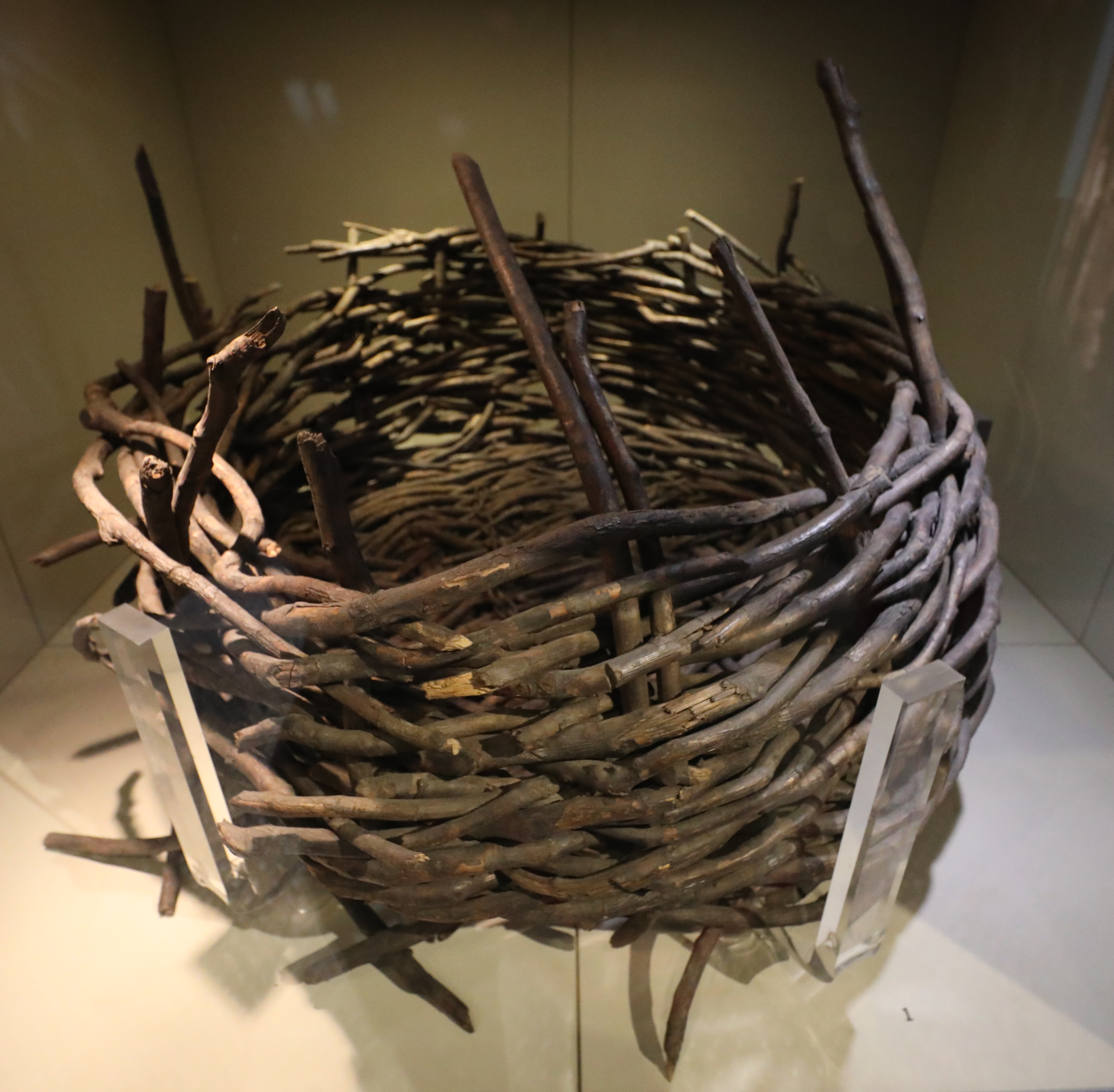 photo of an original coal mining corf. From william pit in Cumbria it was recovered in 1947.